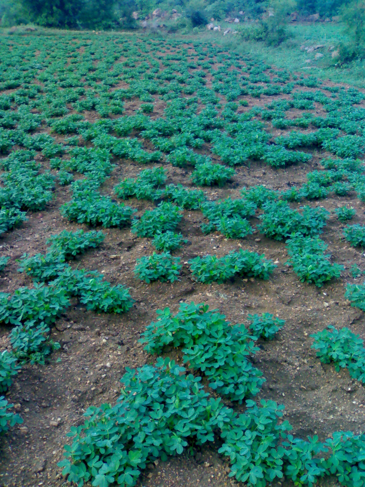 Ground nut field